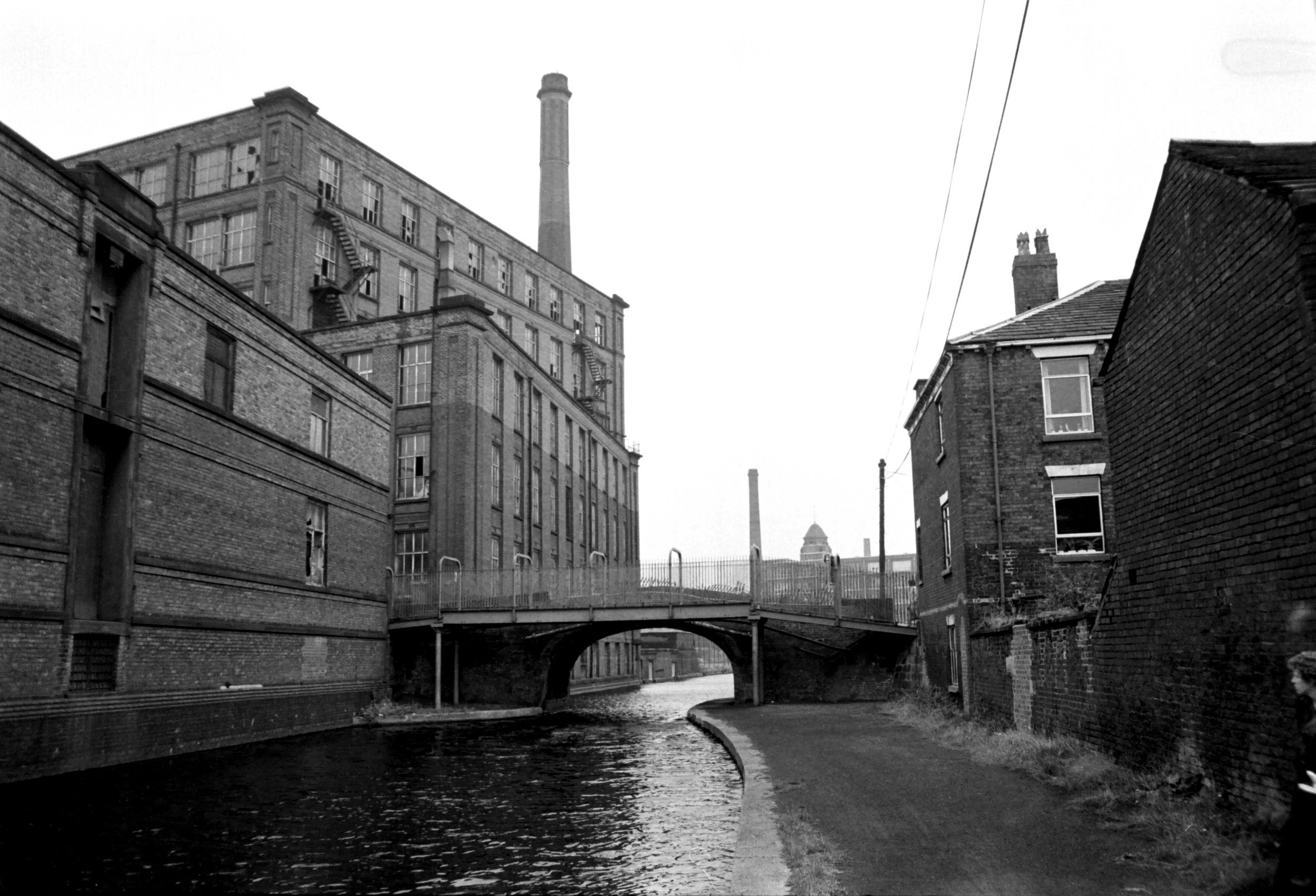 Mather Lane Bridge 1976 Mather Lane Mill, just beyond the bridge, is still standing, as is the building on the far left, though it is empty. The building immediately to the right of the bridge was, once upon a time, the Navigation Inn. The site is now occupied by low rise flats.